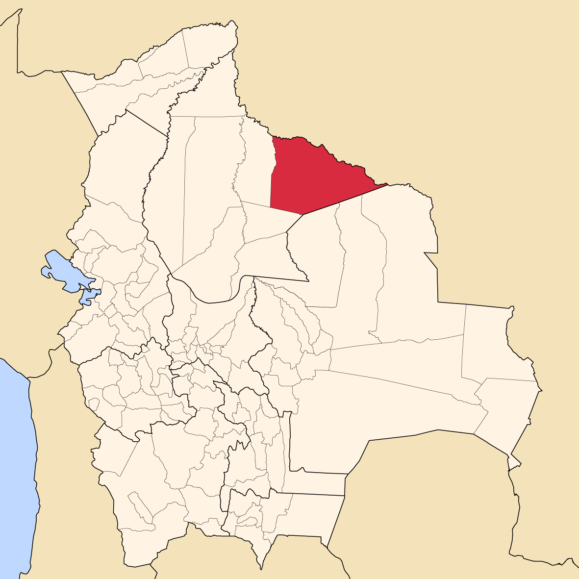 Map of Bolivia showing Iténez province, Beni